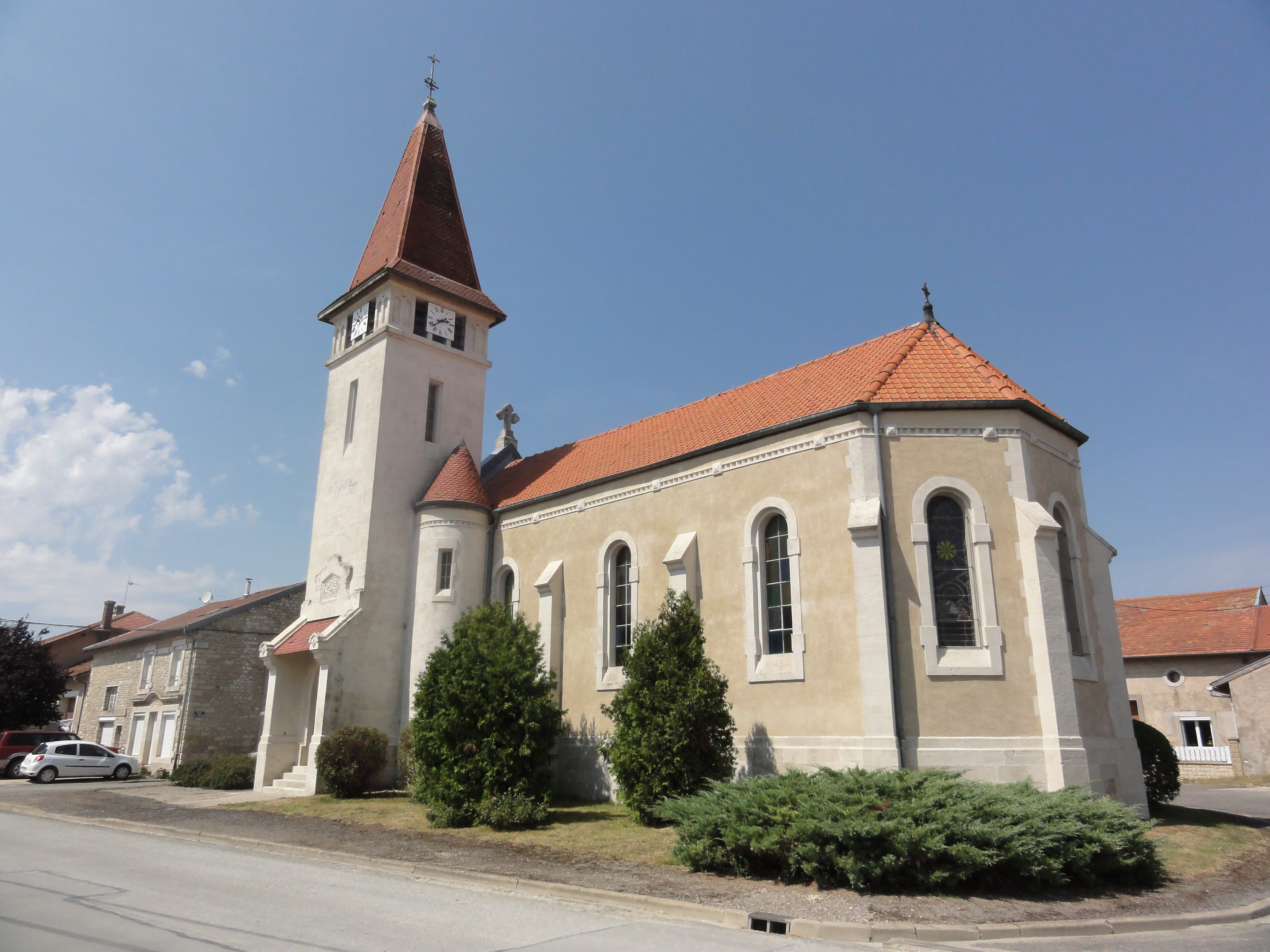 Grimaucourt-en-Woëvre (Meuse) église